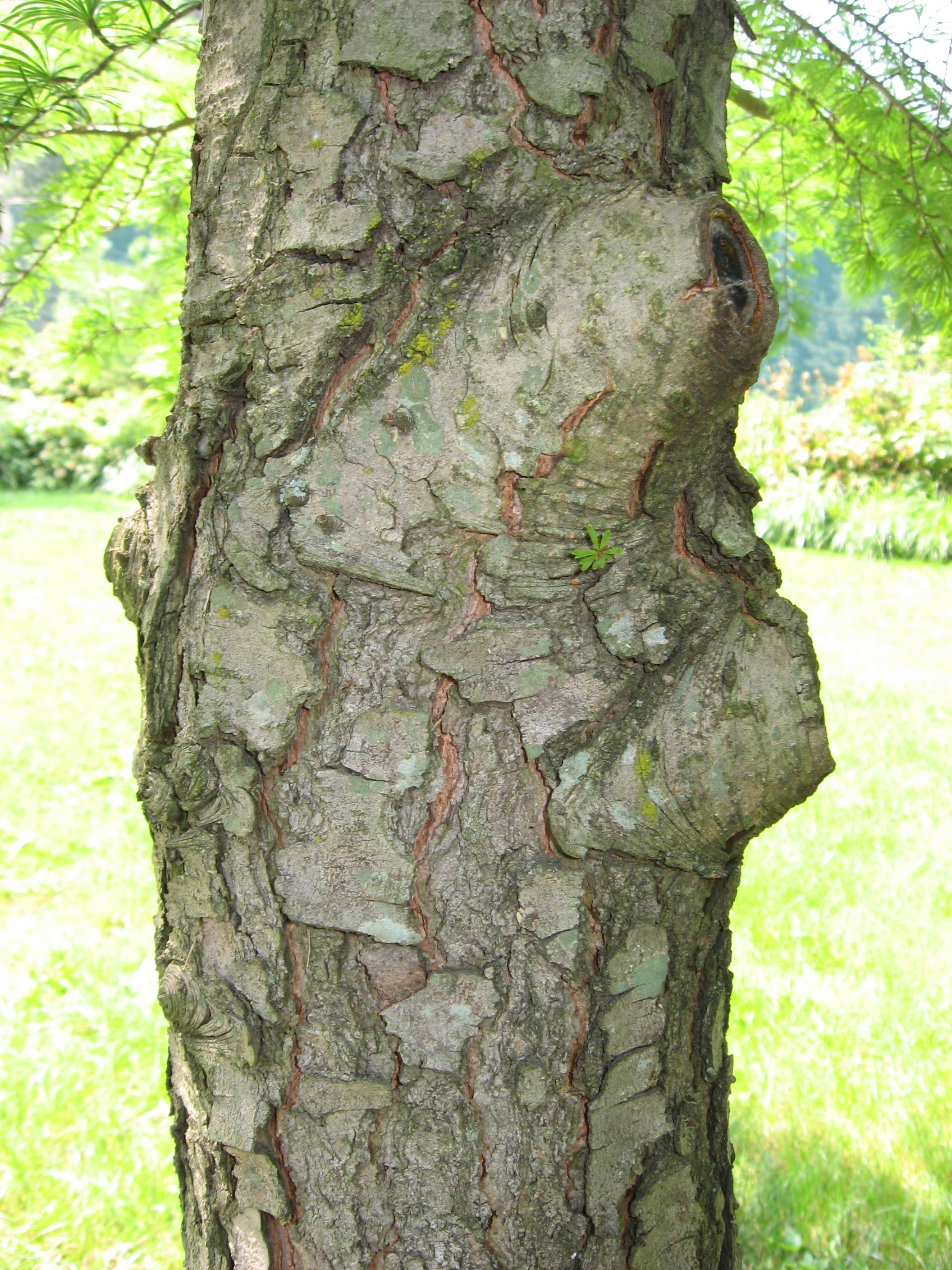 A picture of the trunk of Pseudolarix amabilis.